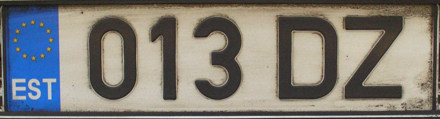 License plate fro trailers from Estonia from 2004 until 2008